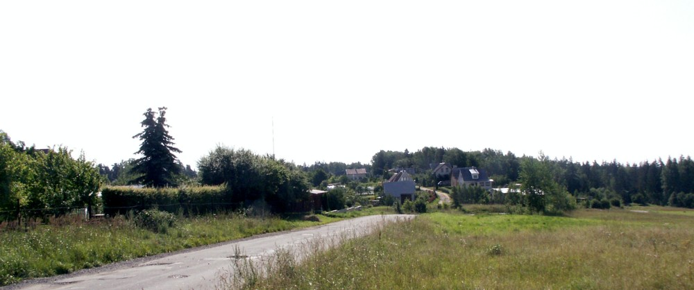 Gervėnai, Šiauliai district, Lithuania